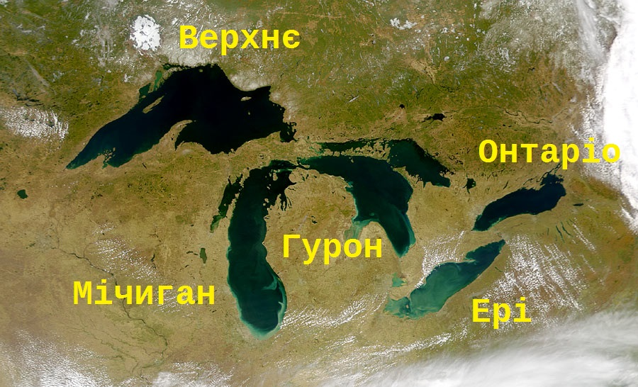 Великі Озера